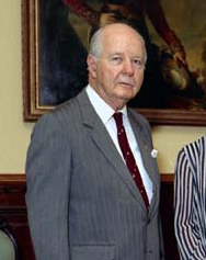 Queensland State Archives Digital Image ID 8000